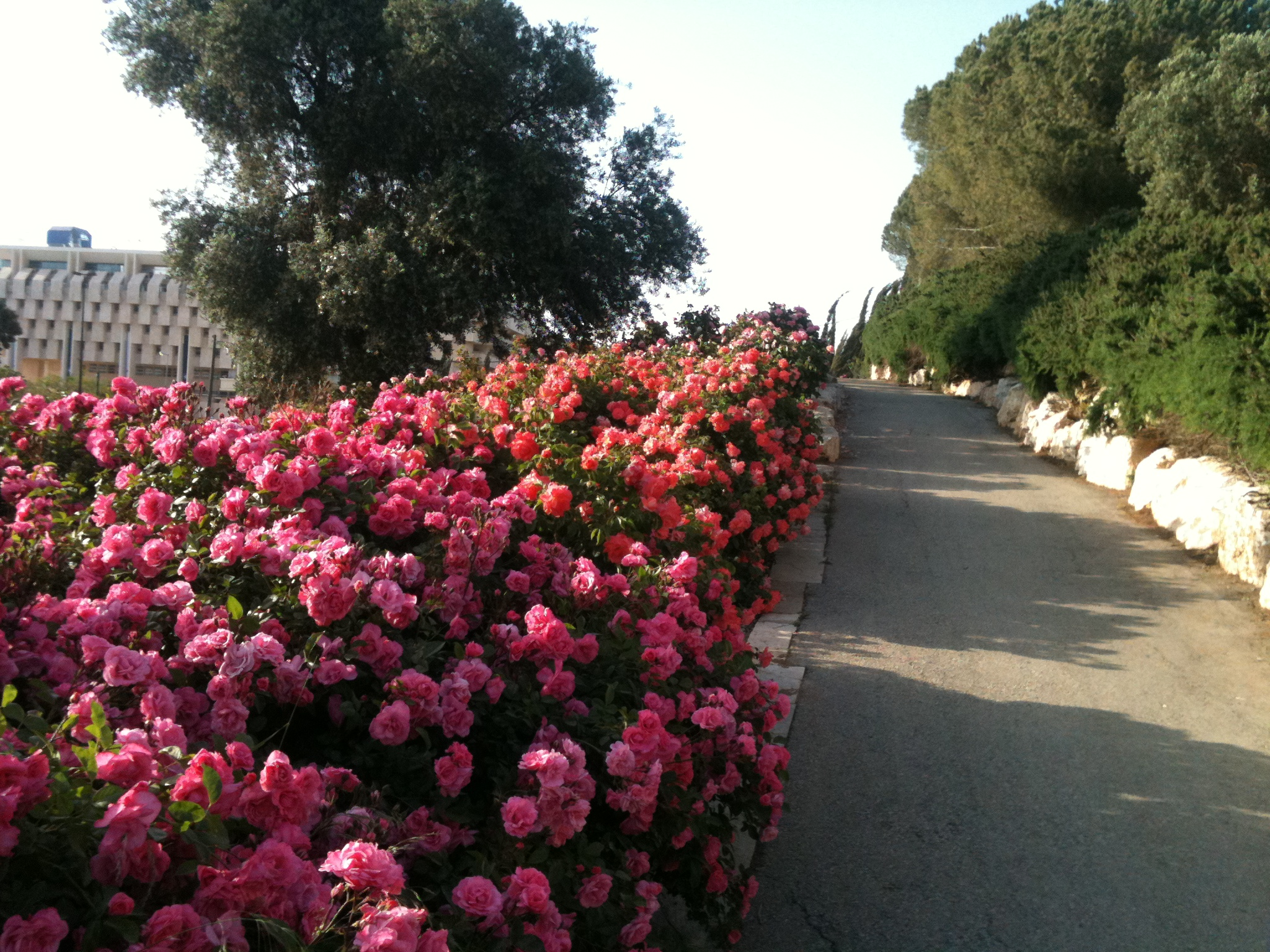 Roses in bloom in the Wohl rose garden in Jerusalem